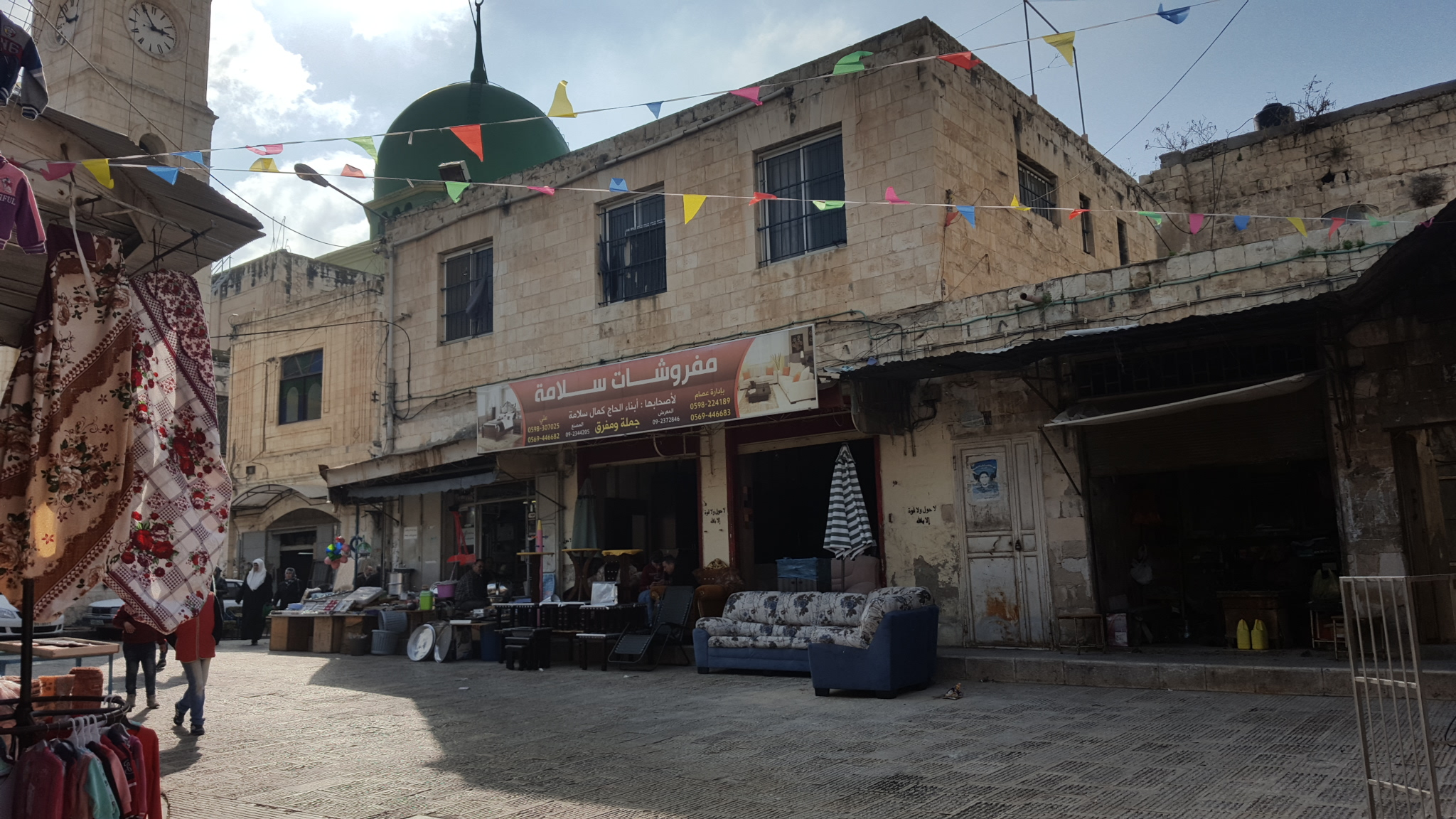 Old town-Nablus in 2017